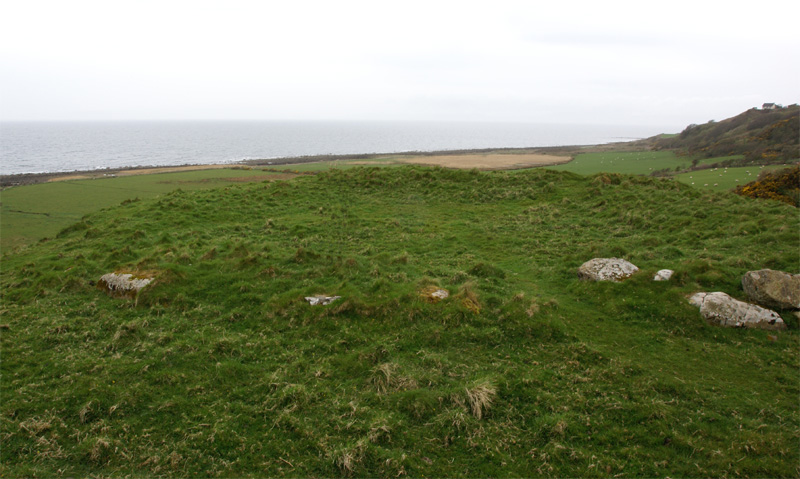 Torr a'Chaisteal Fort, Arran, Scotland